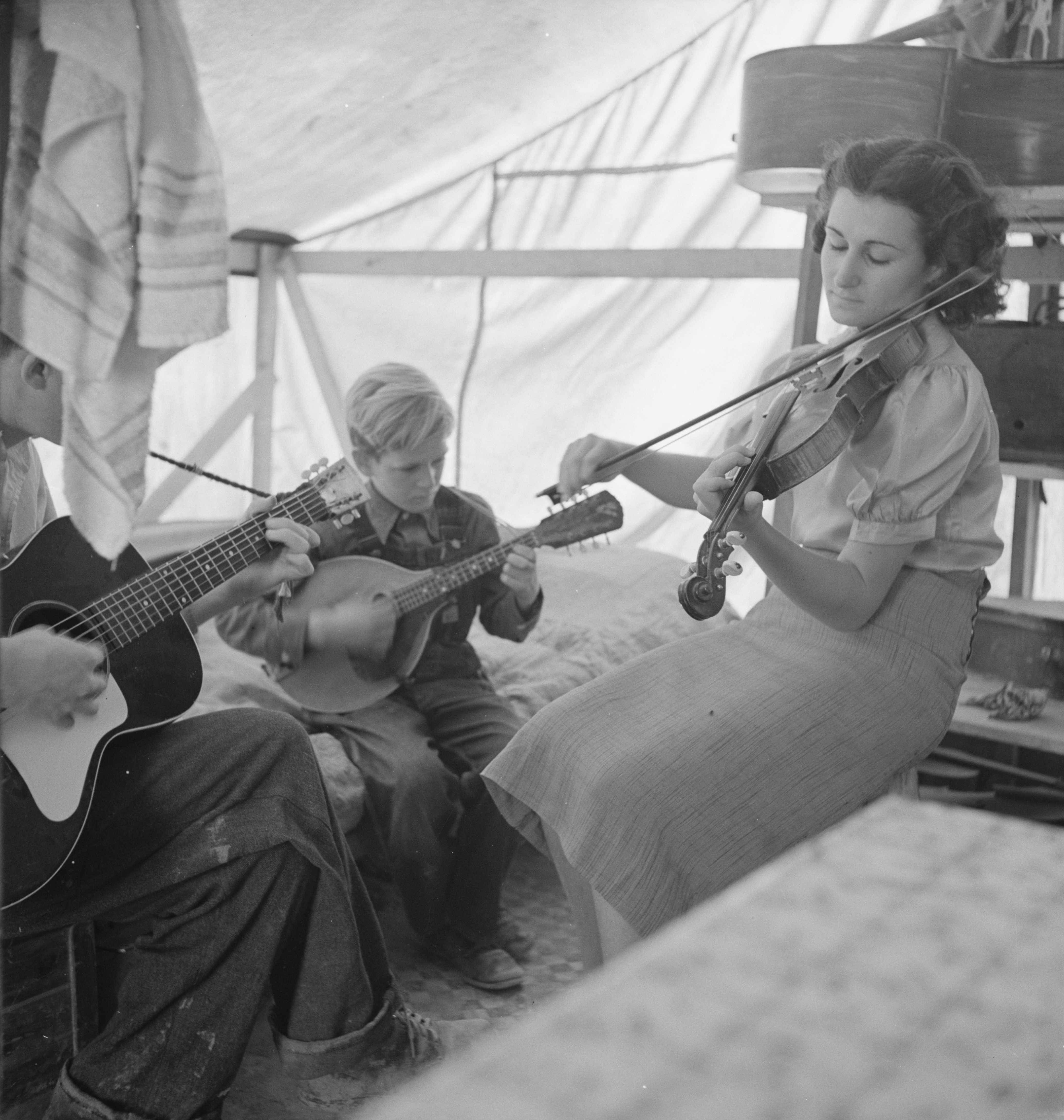 "Migrant family from Arkansas playing hill-billy songs. Farm Security Administration emergency migratory camp. Calipatria, California" 1939